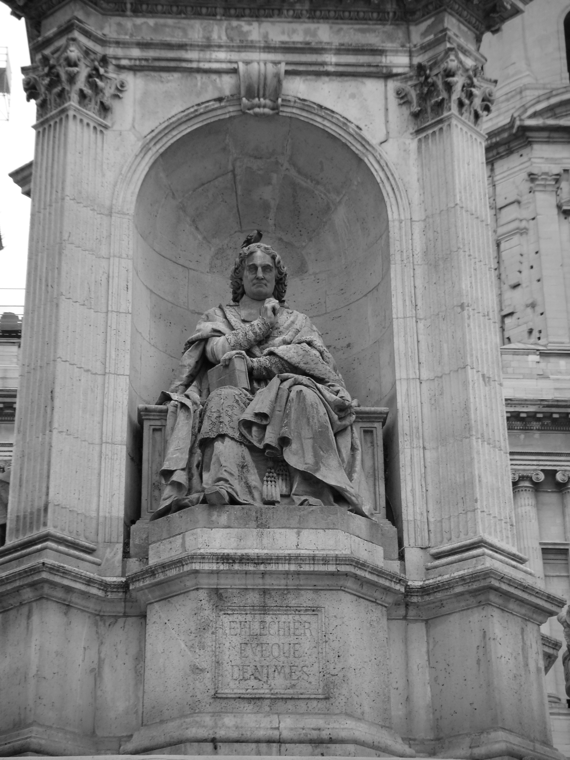 Fléchier by Louis Desprez. Fountain of the Sacred Orators, Place Saint-Sulpice, Paris (6th arrondissement), France.